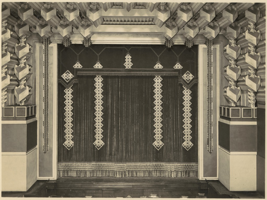 Griffin, Walter Burley, 1876-1937. Title from acquisition documentation.; Inscriptions: "Commercial Photographic Coy., Melb."--Blind stamp lower right; "Commercial Photographic Coy, 224-228 Little Collins St. Melb. C.I."-- Stamped on verso.; Condition: Creases.; Part of the collection: Eric Milton Nicholls collection.; Also available in electronic version via the Internet at: .au/nla.pic-vn3603884-s299; Purchased from Marie and Glynn Nicholls, 2006.; Exhibited: "Things: photographing the constructed world", Temporary Exhibition Gallery, National Library of Australia - 24 November 2012 - 17 March 2013. AuCNL; Vernon inventory, Pt. 1/12 No. 1[n]. Persistent URL .au/nla.pic-vn3603884-s299